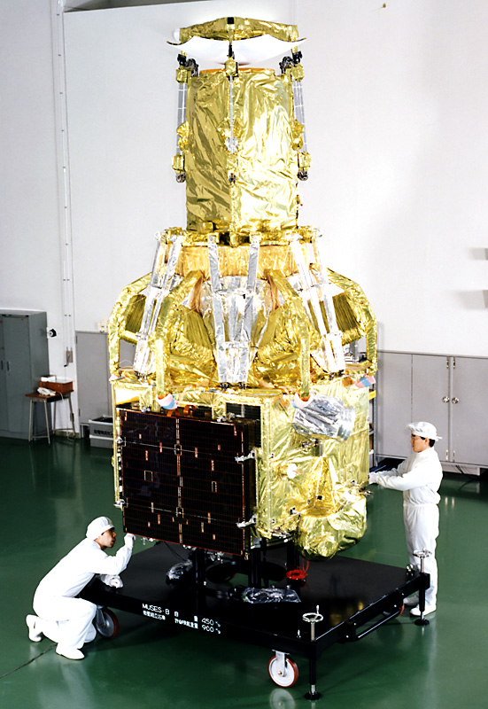 Haruka (はるか)/HALCA/VSOP/MUSES-B during a solar battery check at Uchinoura. The VLBI space telescope was built by JAXA. (translated with google) Image Policy